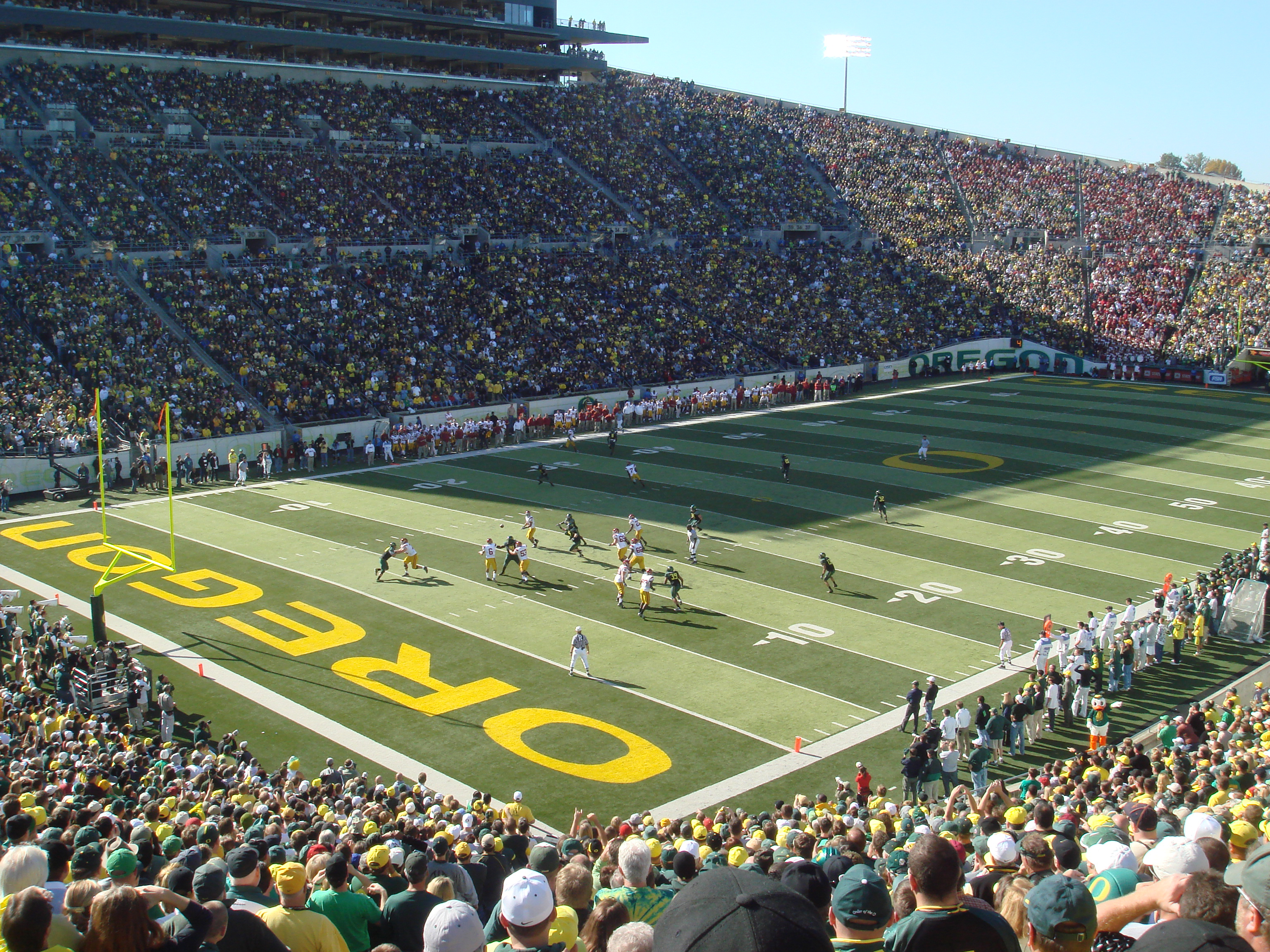 Autzen Stadium, home of theUniversity of Oregon Ducks football, during the 2007 season game between the USC Trojans and the Ducks; it was the first time two top-10 teams had played at Autzen in its 41-year history and broke the stadium attendance record with 59,277. The Ducks, slightly favored, won the game: 24–17.